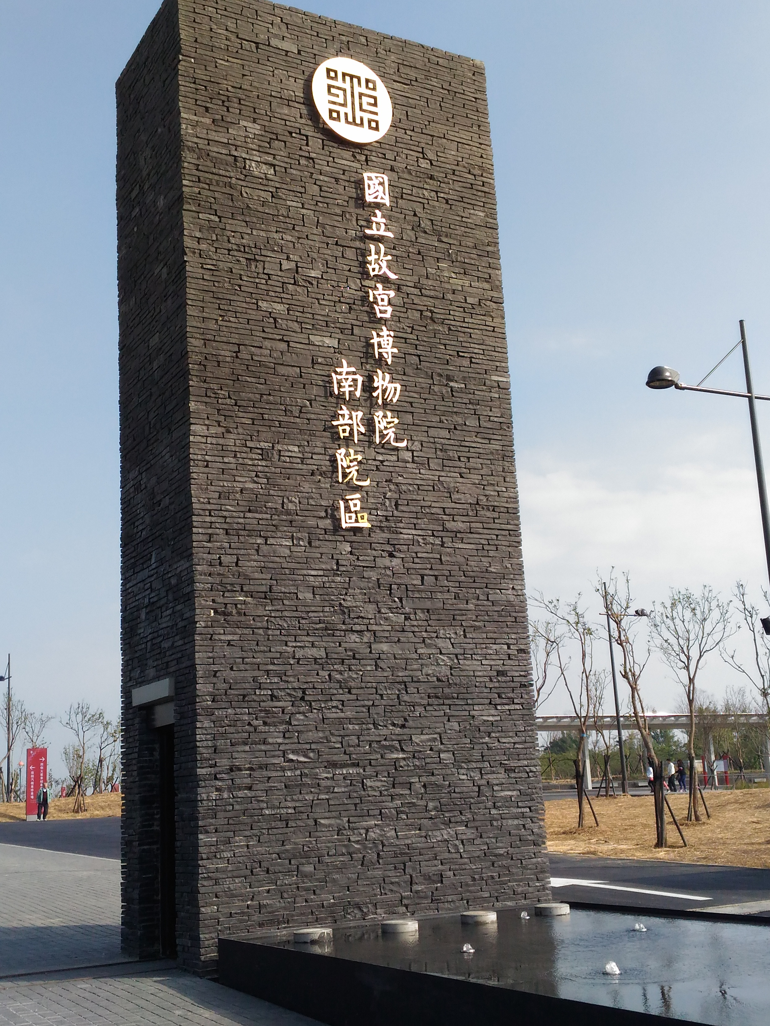 The main entrance of the Southern Branch of the National Palace Museum.